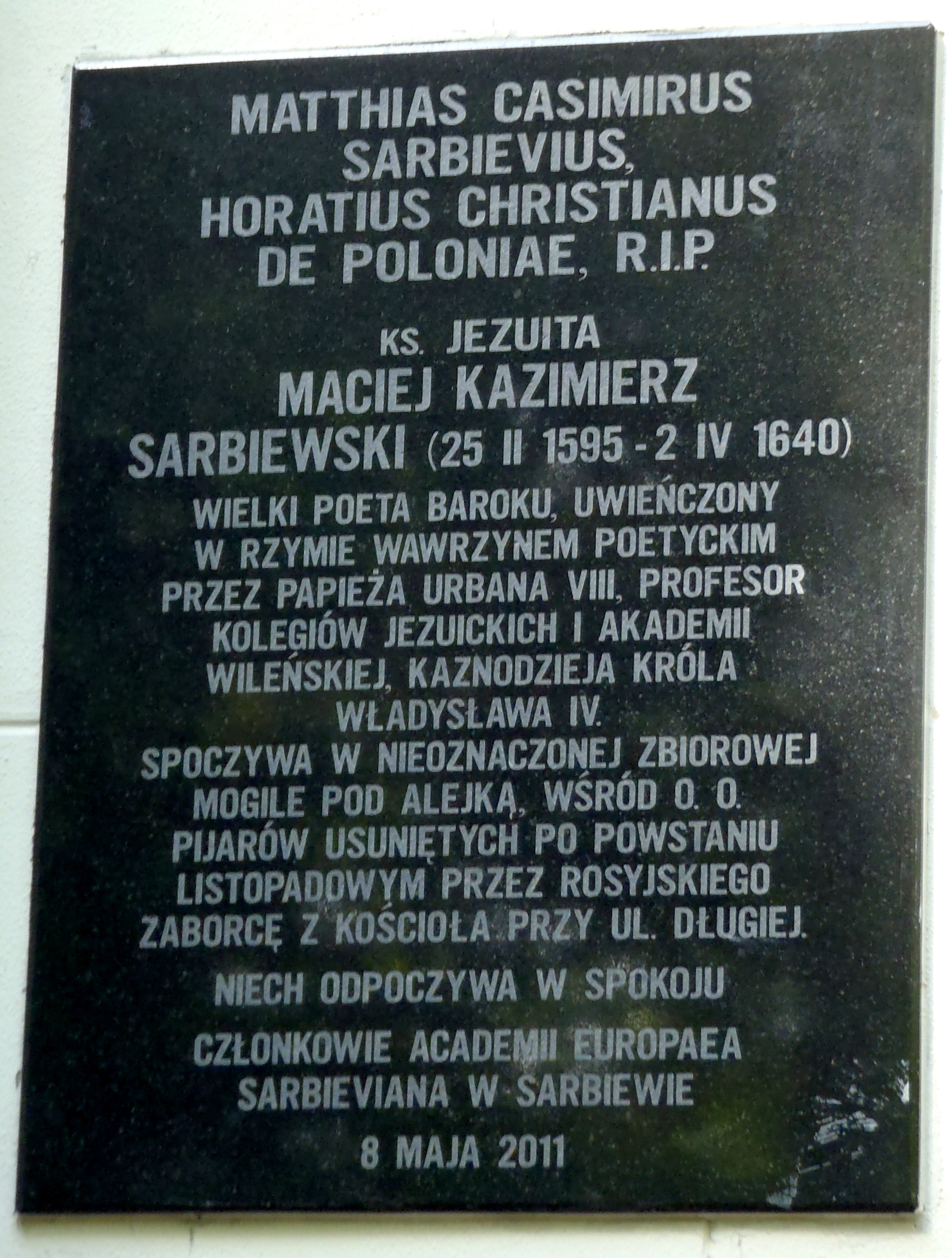 Maciej Kazimierz Sarbiewski grave plaque on wall of Saint Charles Borromeo church, Pawazki cemetery in Warsaw, Poland